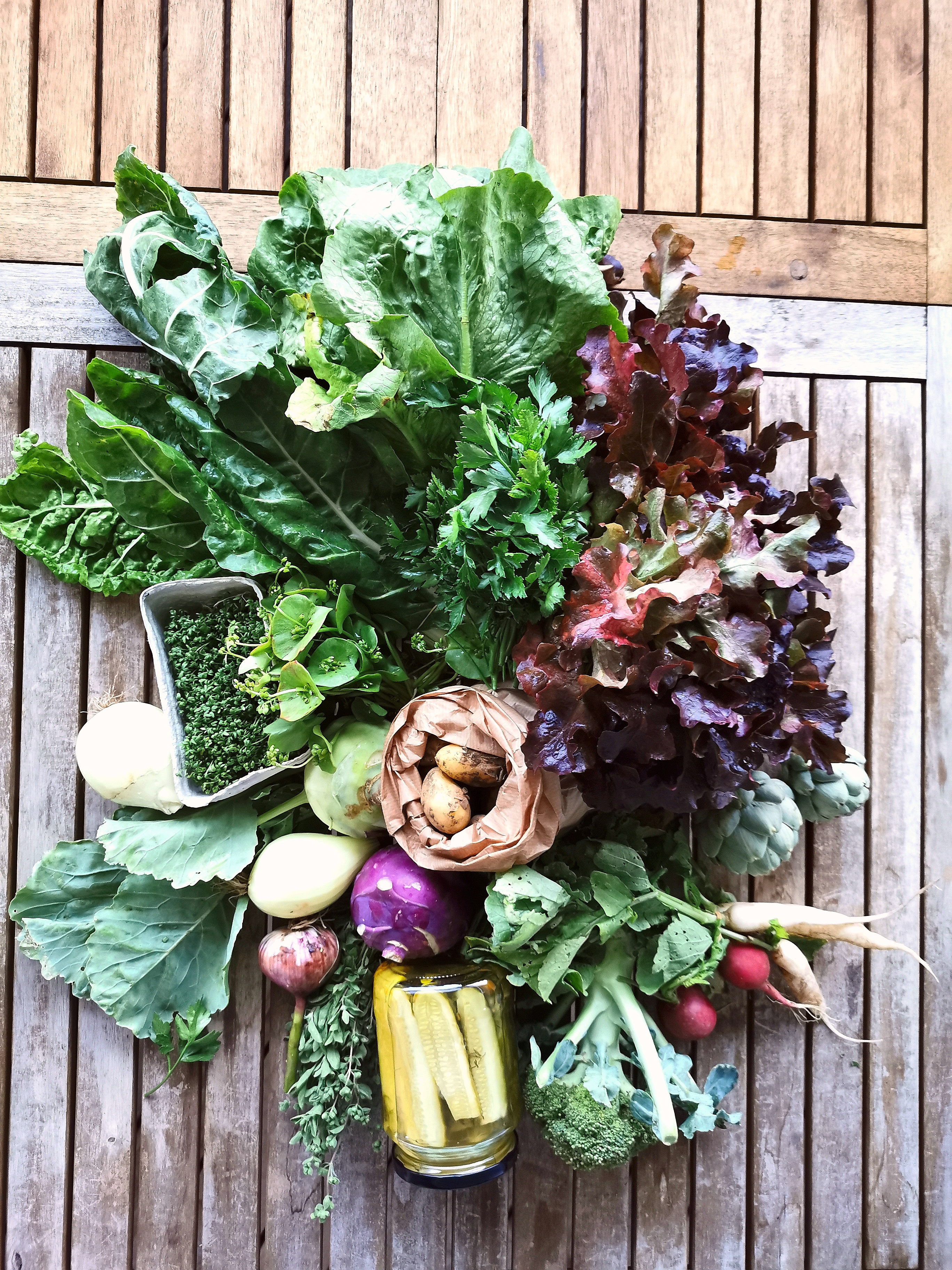 The vegetables are a harvest portion that members receive weekly.